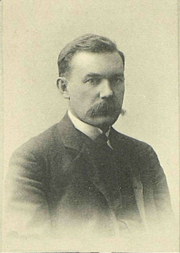 Mitrophan Voronkov, a member of the Second, Third and Fourth Russian State Duma, 1907-1917